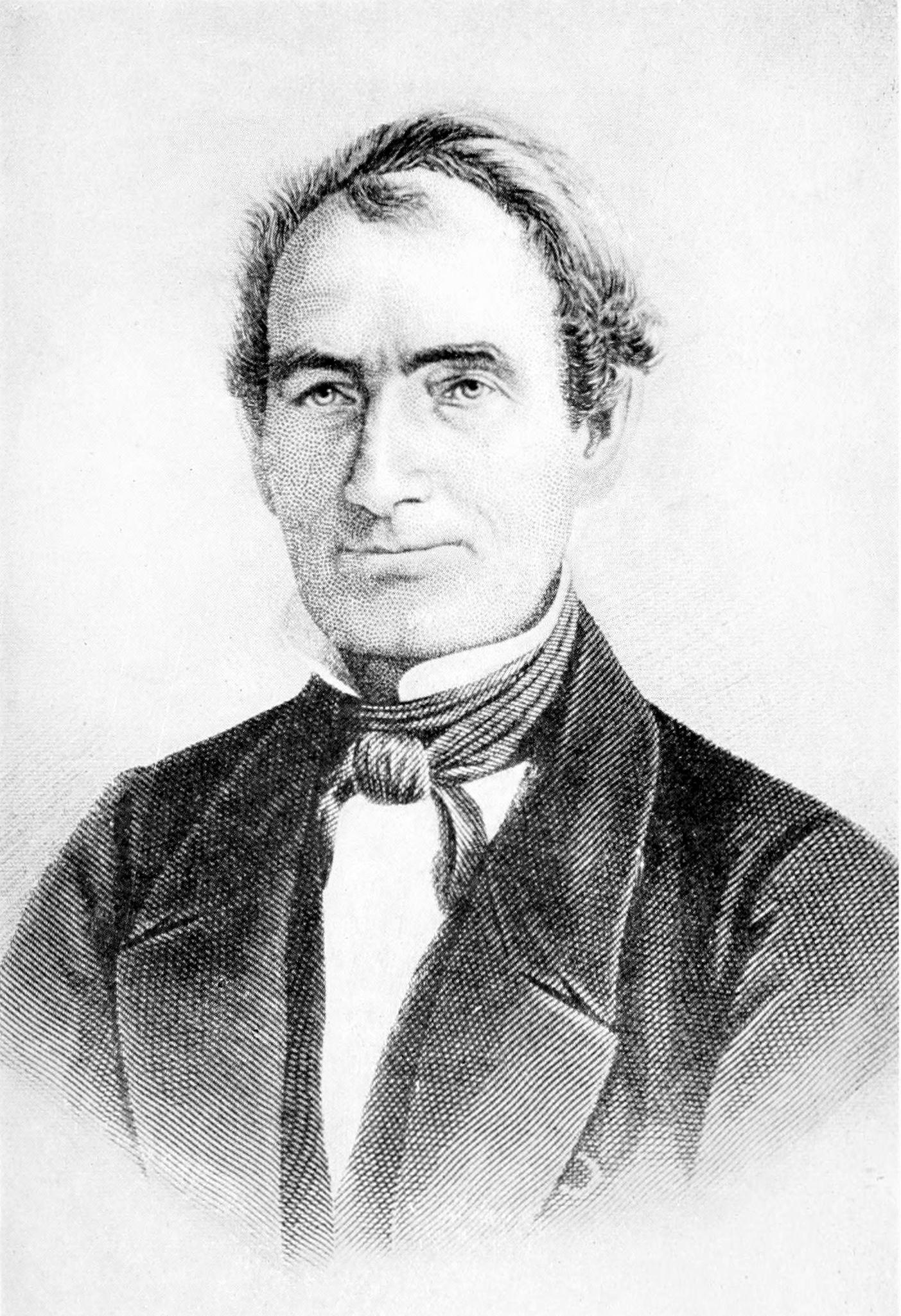 Eliphalet Remington, principle of E. Remington and Sons